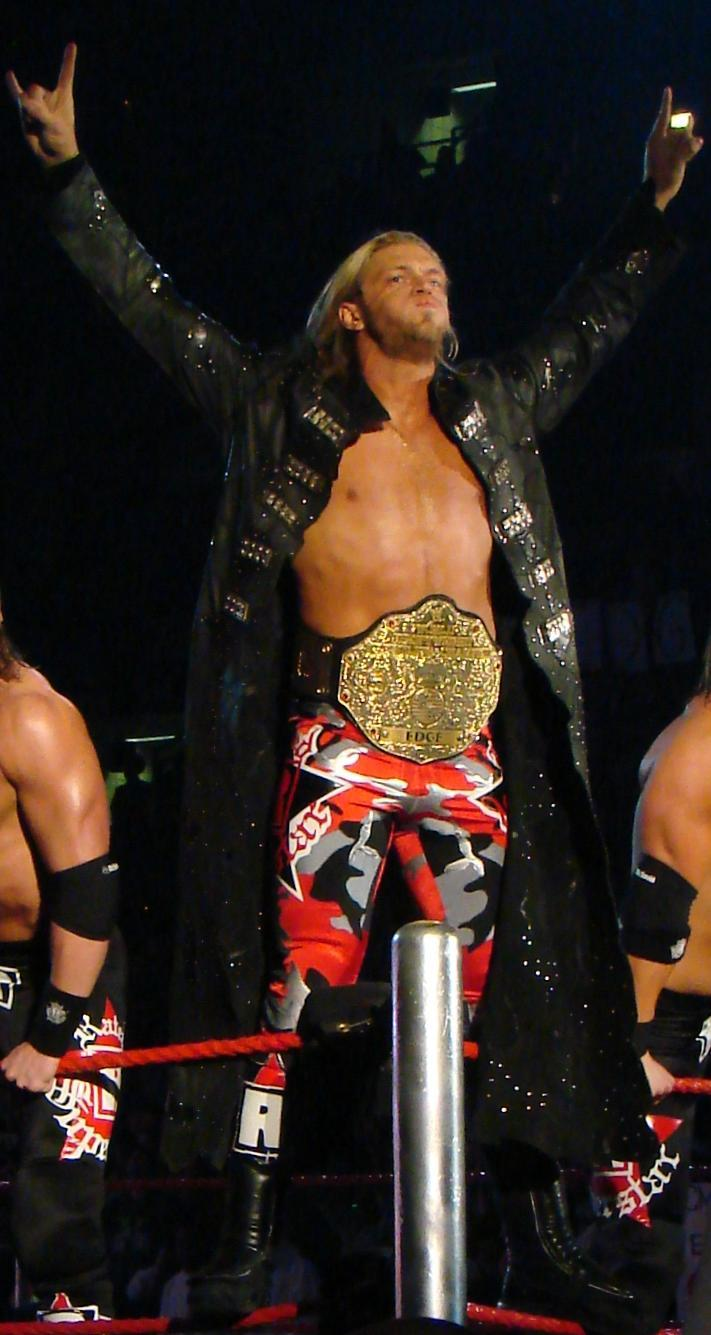 World Heavyweight Champion Edge at WWE Raw. Bradley Center, Milwaukee, WI.